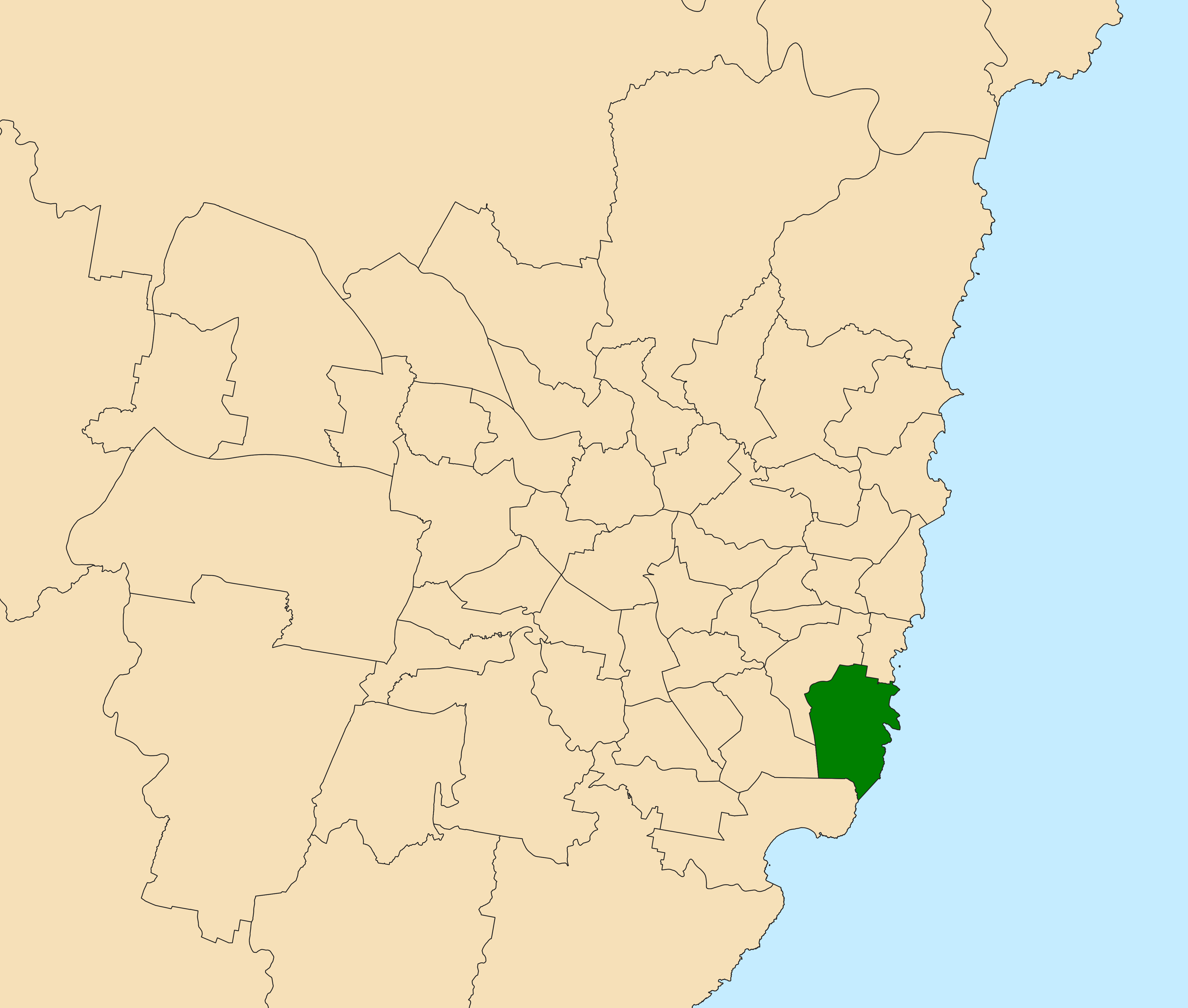 Location of the state electoral district of Maroubra (dark green) in the metropolitan Sydney area as of the 2019 New South Wales state election. Incorporates or developed using Administrative Boundaries ©PSMA Australia Limited licensed by the Commonwealth of Australia under Creative Commons Attribution 4.0 International licence (CC BY 4.0).